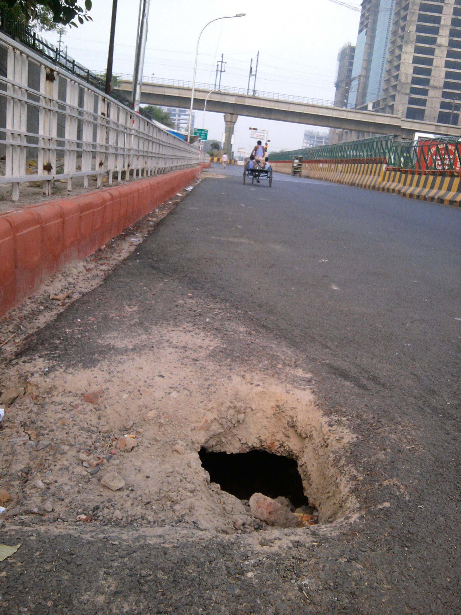 a hole in road